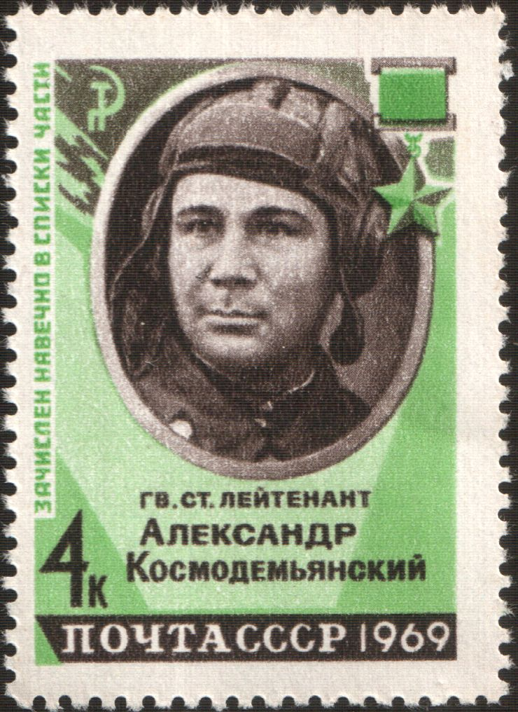 USSR stampː Aleksandr Kosmodemyansky. Seriesː Heroes of World War II